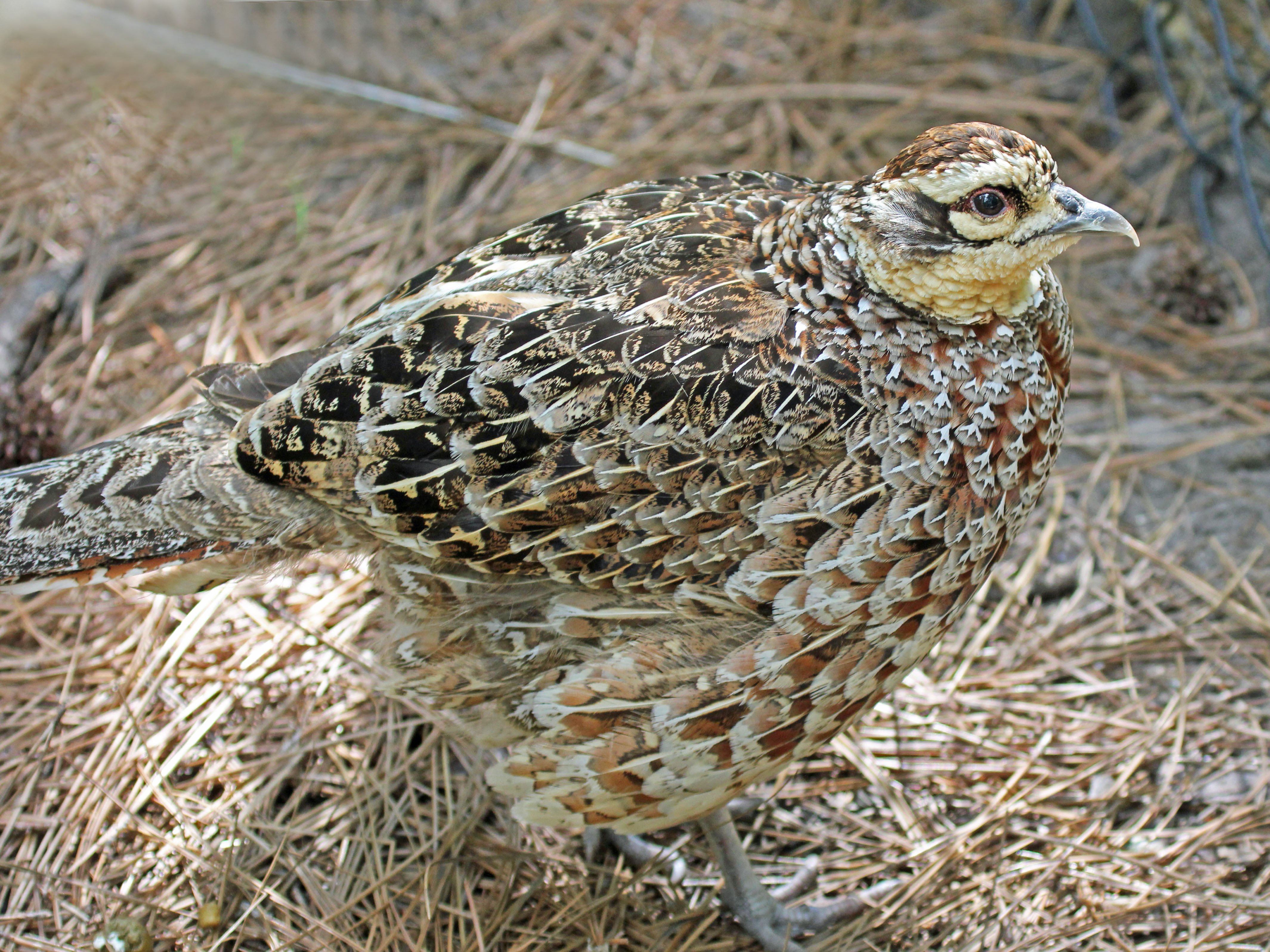 Female Reeve's Pheasant (Syrmaticus reevesii) at Sylvan Heights Waterfowl Park in Scotland Neck, North Carolina.